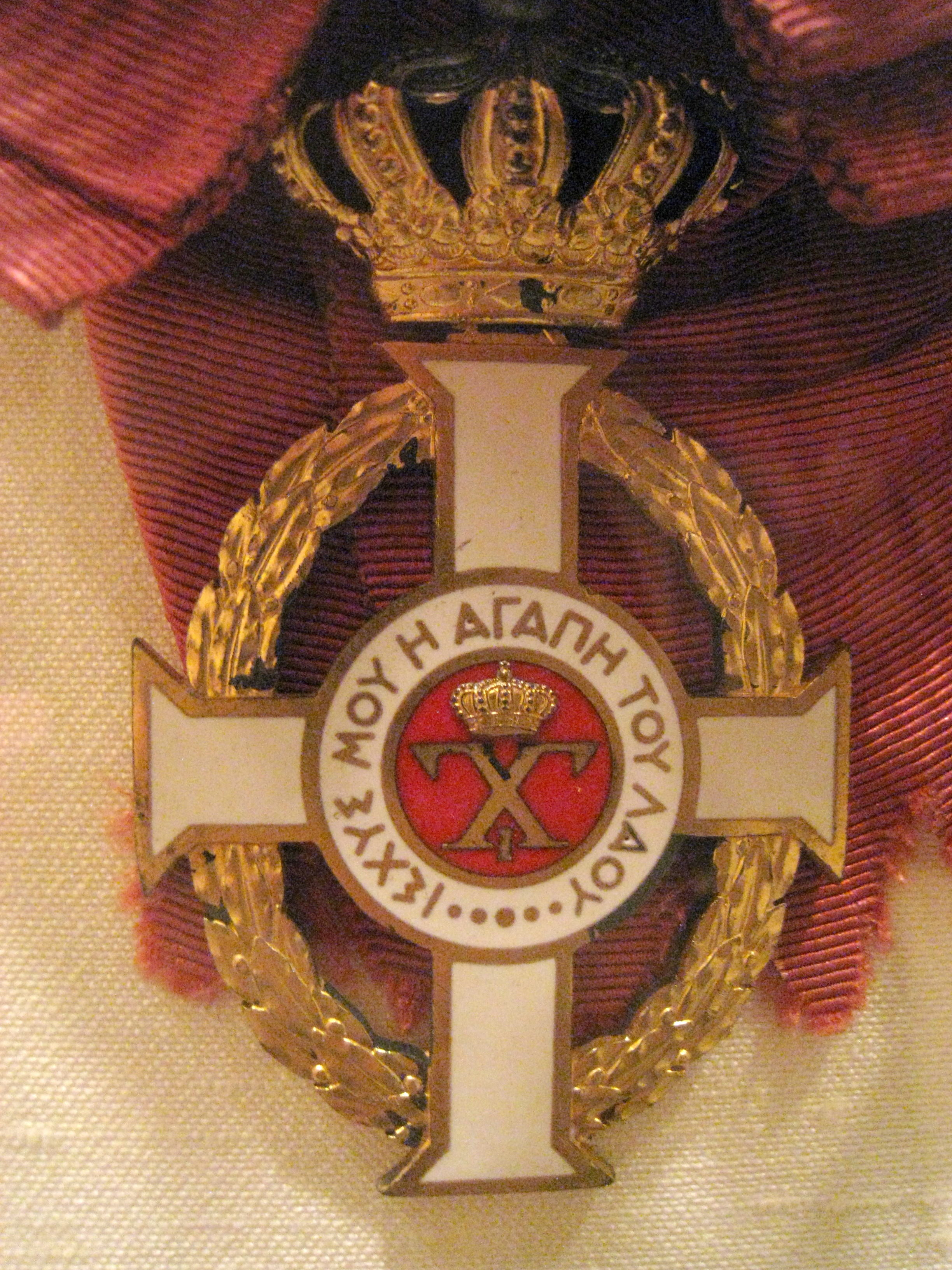 Order of George I of Greece (rank of Commander). Presented to Ambassador Angier Biddle Duke, and now on display in the Washington Duke Inn, Durham, North Carolina, USA.